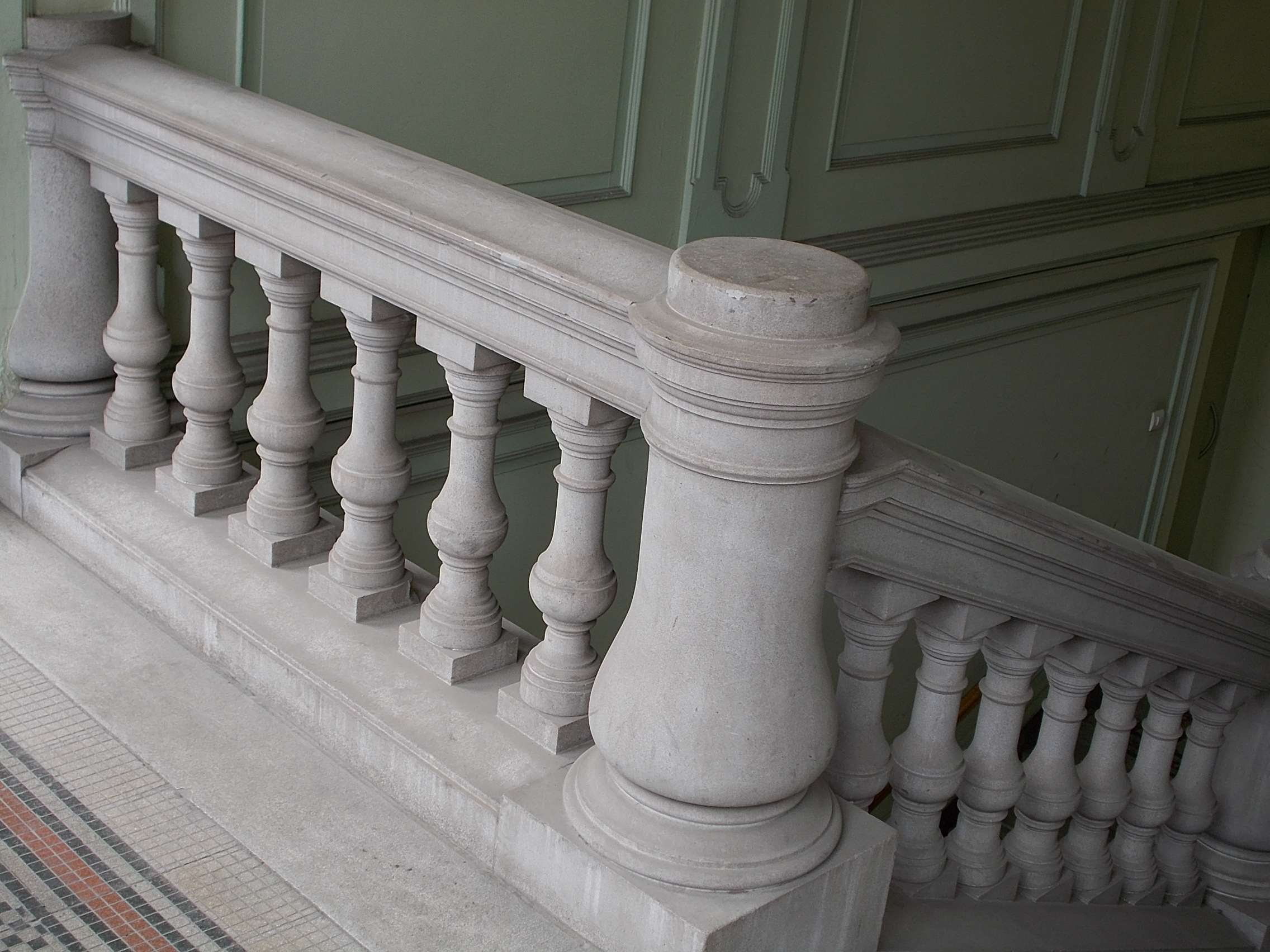 Dwelling building with a theater on ground floor. - Teréz Boulevard, Budapest District VI., Hungary.